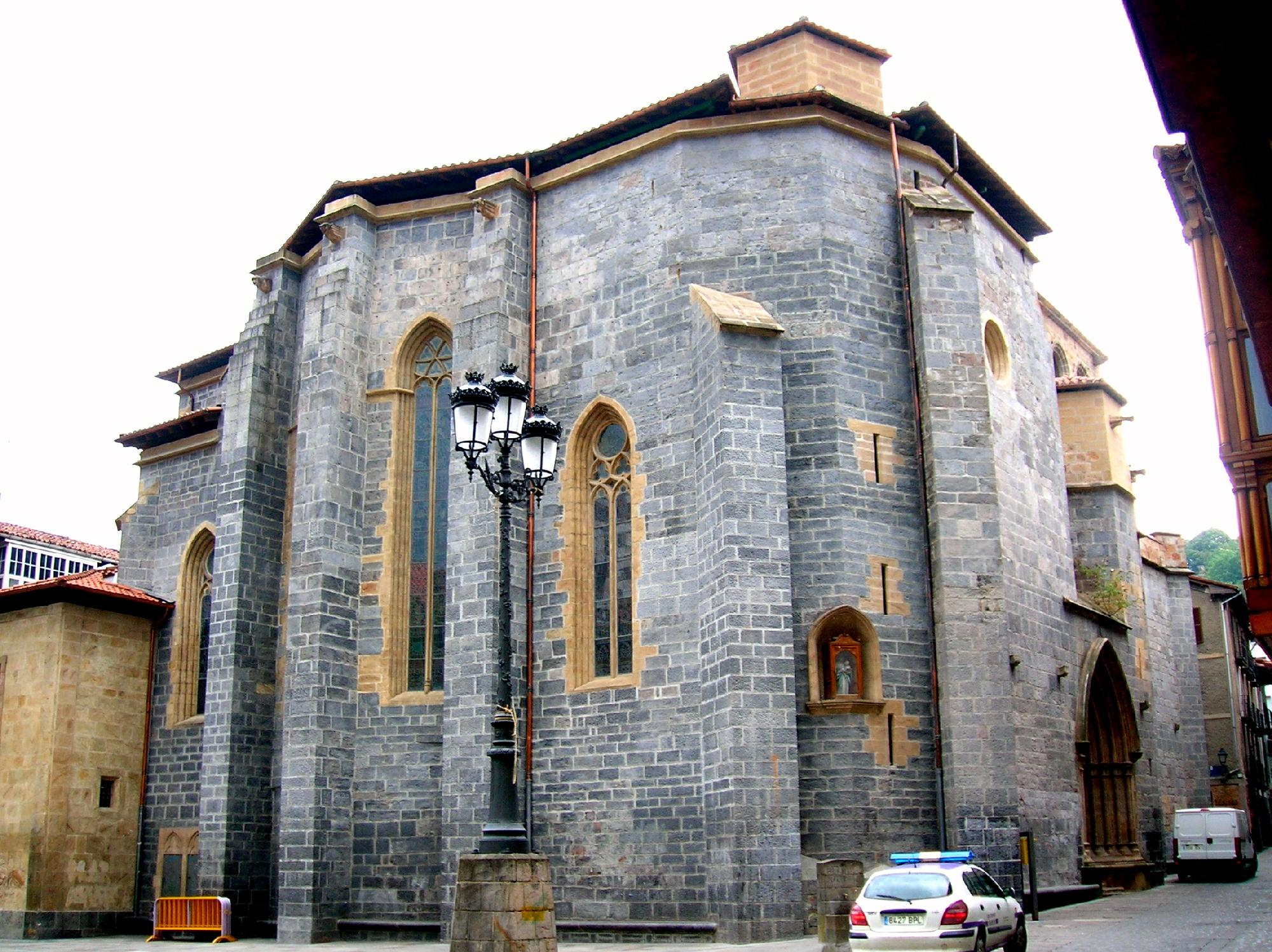 Iglesia parroquial de San Juan Bautista, Arrasate/Mondragón (Guipúzcoa, País Vasco, España)